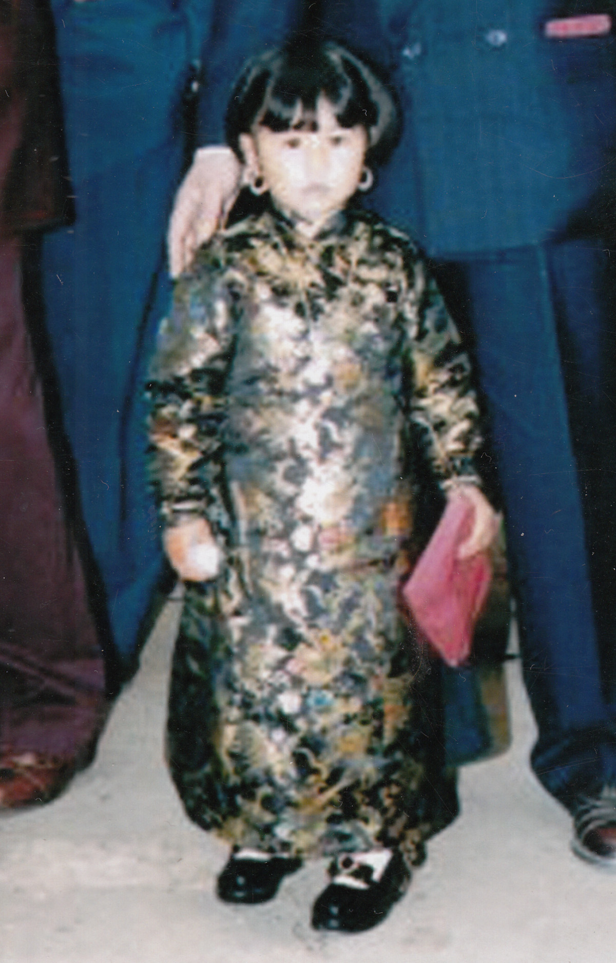 Girl wearing traditional dress Bhāntān Lan (भान्तां लं) made of silk brocade in Kathmandu, Nepal, ca 1999.